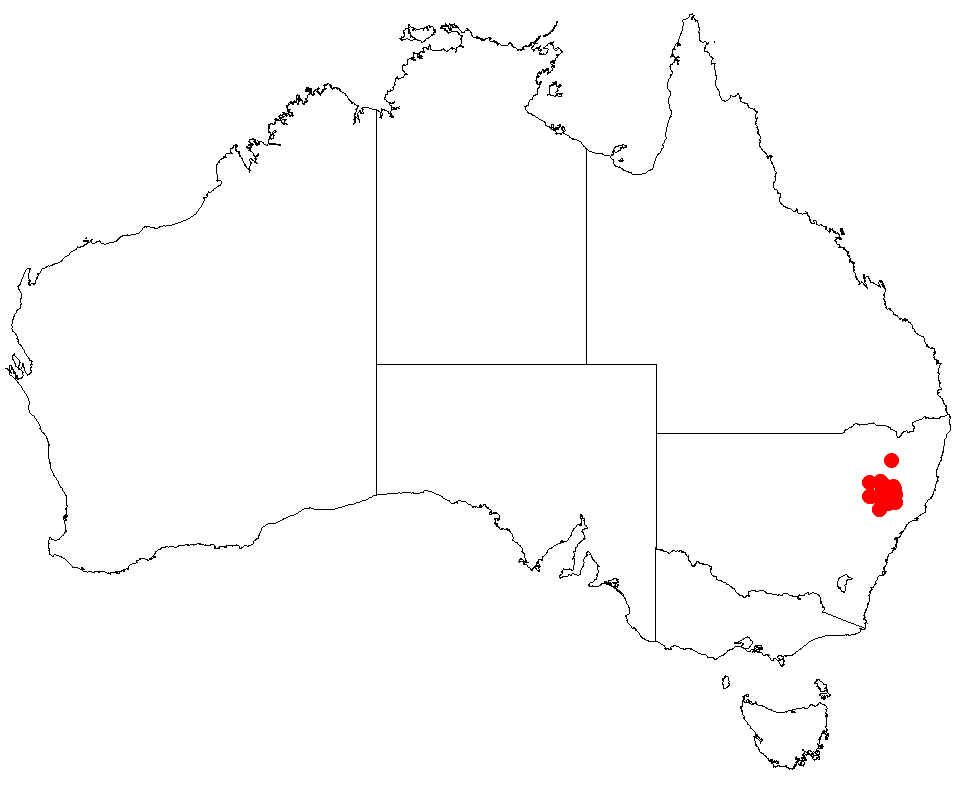 Macrozamia concinna occurrence data downloaded from Australasian Virtual Herbarium using